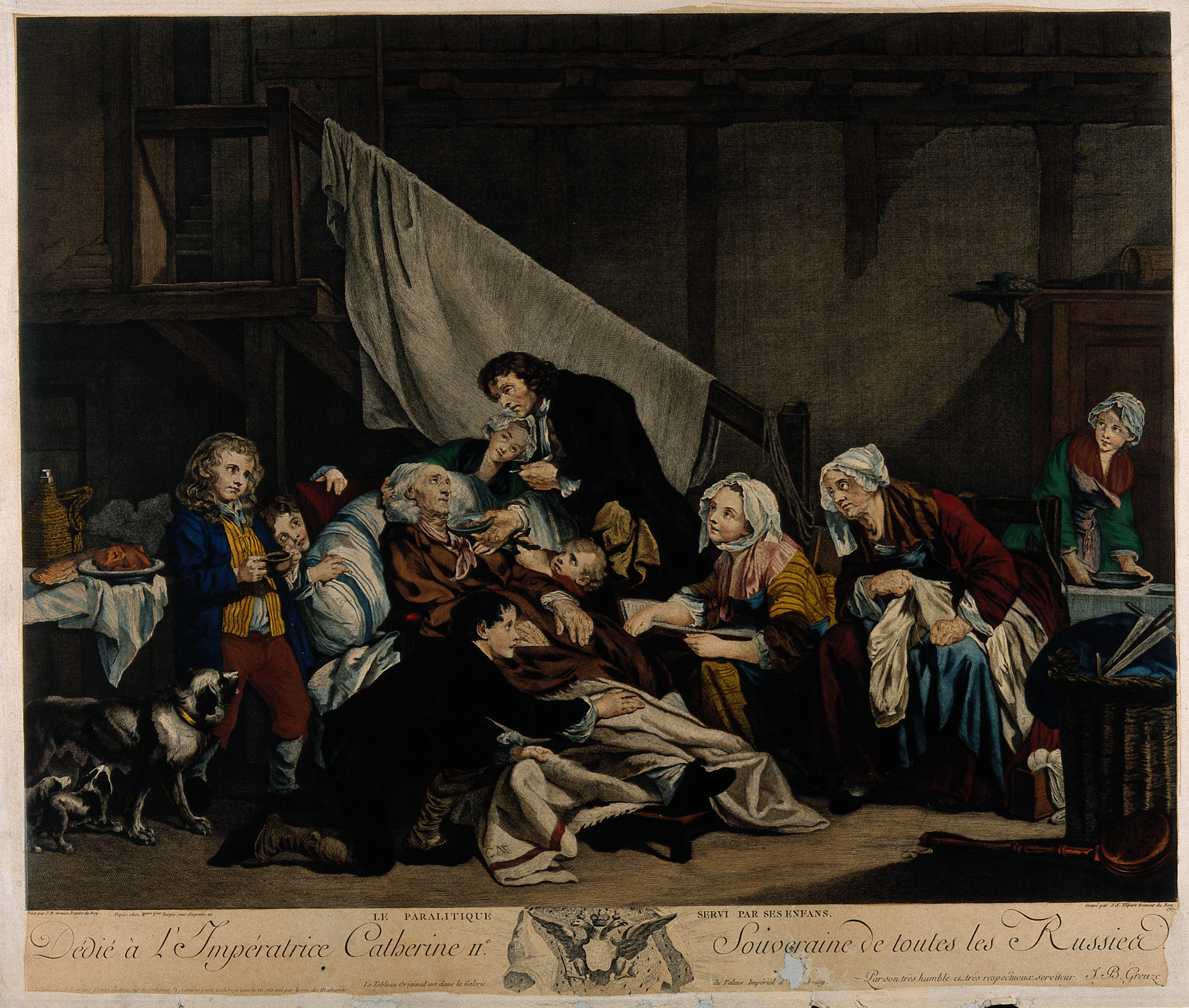 A paralysed old man being comforted and nursed by his children. Coloured line engraving by J.J. Flipart, 1767, after J.-B. Greuze. Iconographic Collections Keywords: Catherine; Jean-Baptiste Greuze; Jean Jacques Flipart